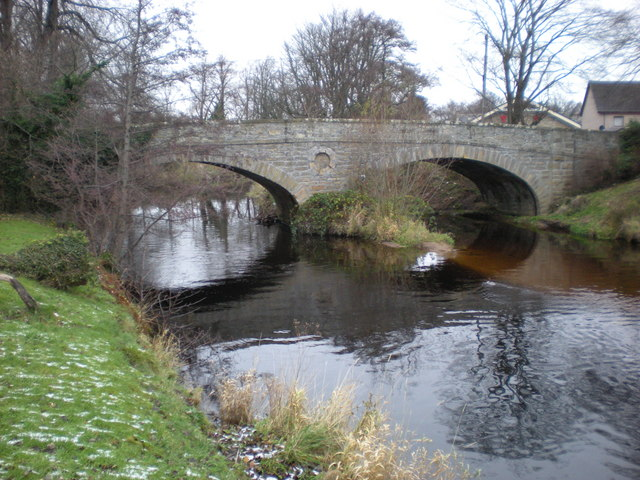 Bridge over the River Lossie